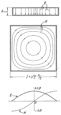 figure 1a, 1b and 1c from US patent 2424267, Philip S. Carter, "High frequency resonator and circuits therefor", granted 1947-07-22 , assigned to Radio Corporation of America